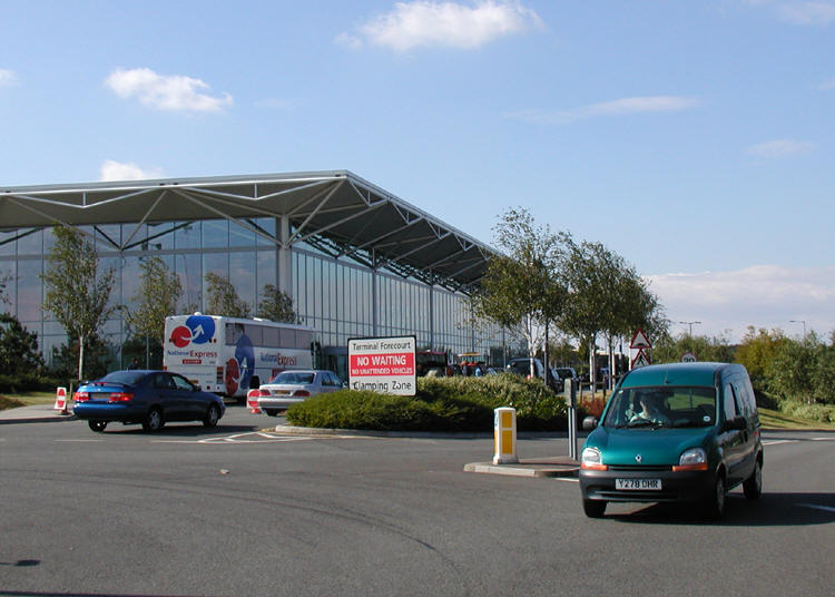 The passenger terminal at Bristol International Airport, Bristol, England. Photographed by Adrian Pingstone in September 2003 and released to the public domain.